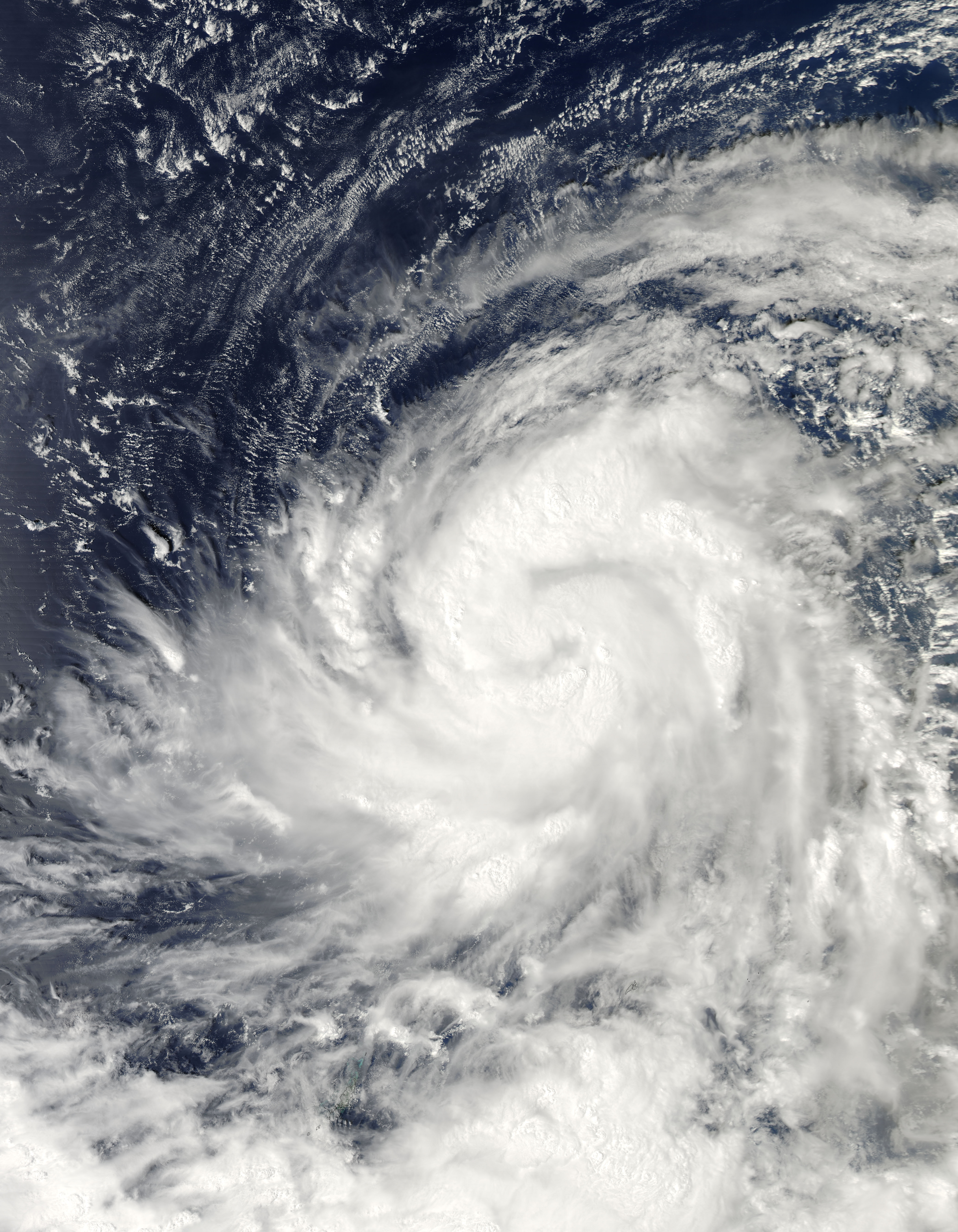 Typhoon Lupit began on October 14, 2009, as a tropical depression over the Western Pacific. By October 16, the storm had strengthened to a typhoon. According to the Joint Typhoon Warning Center, the storm had sustained winds of 65 knots (120 kilometers her hour) and gusts up to 80 knots (148 kilometers per hour). Like Ketsana and Parma before it, Lupit was headed in the general direction of the Philippines. The Moderate Resolution Imaging Spectroradiometer (MODIS) on NASA’s Aqua satellite captured this image of Typhoon Lupit on October 16, 2009. Swirling storm clouds fill most of the scene as the typhoon spans several hundred kilometers. The high-resolution image provided above is at MODIS’ full spatial resolution (level of detail) of 250 meters per pixel. The MODIS Rapid Response System provides this image at additional resolutions.